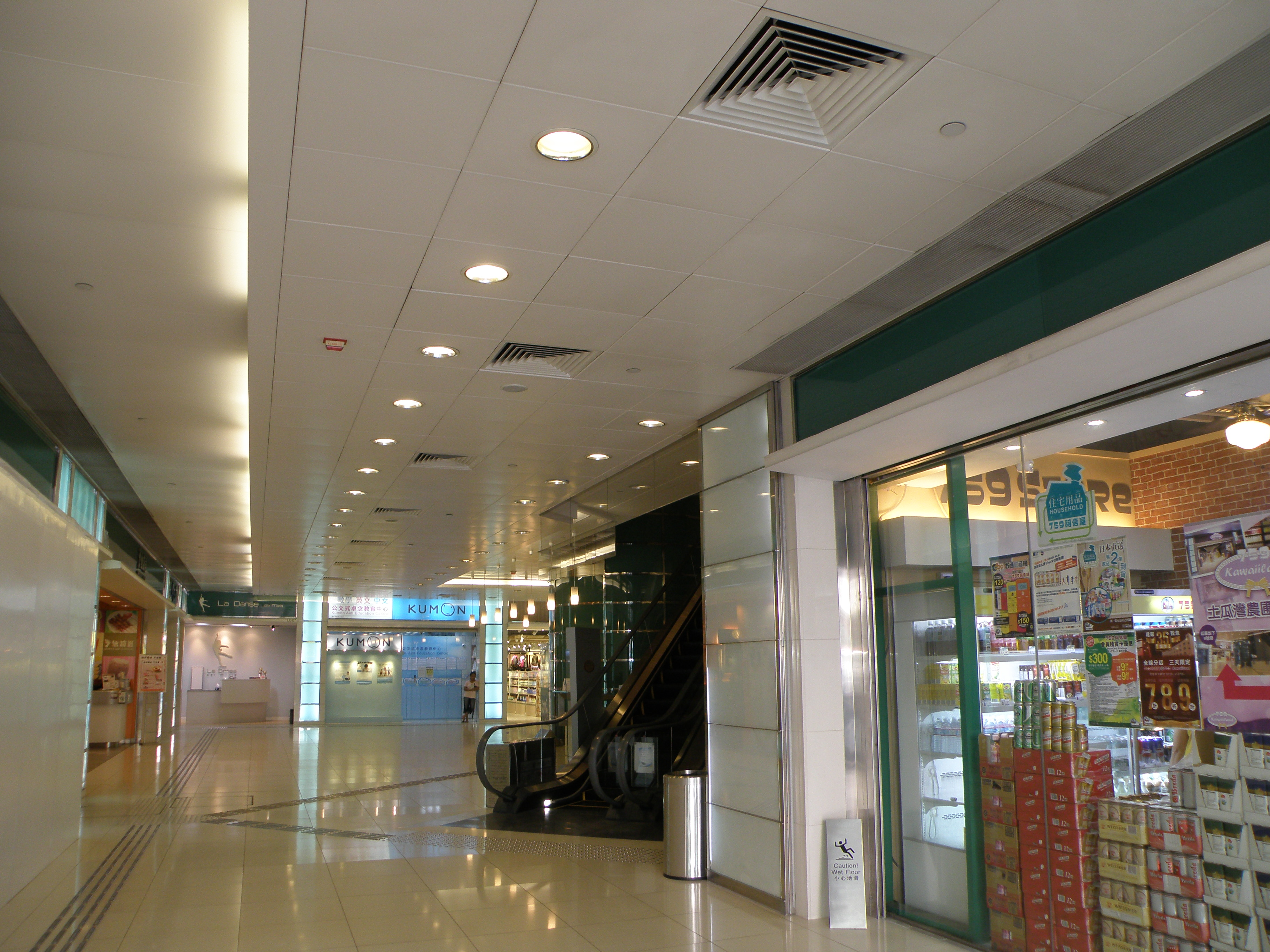 18 Farm Road (shopping mall) in Ma Tau Wai, Hong Kong.